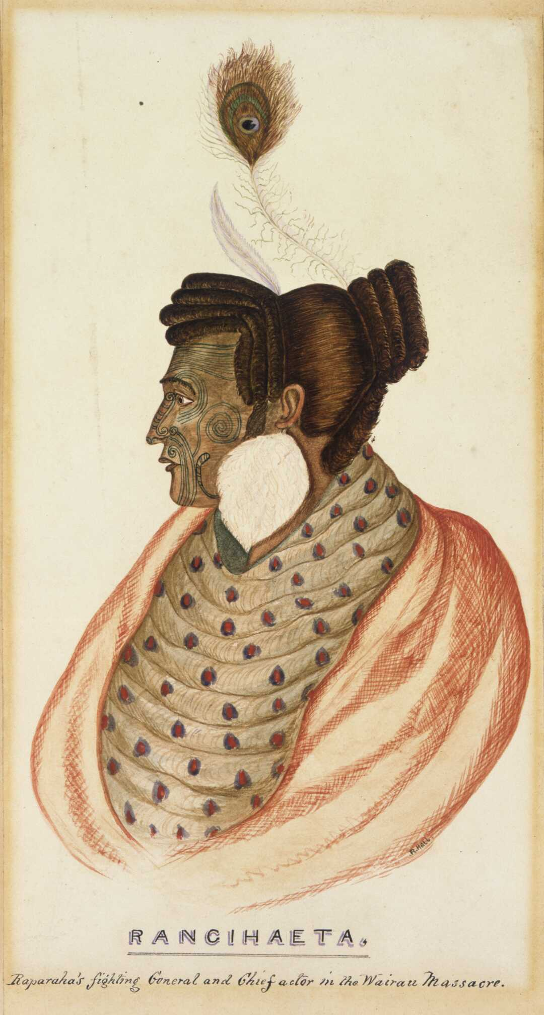 Hall, R :Rangihaeta, Raparaha's fighting general and chief actor in the Wairau Massacre [184-] Reference Number: A-114-046 Shows head and shoulders profile of left side of this Maori chief, with hair pulled back and with decorative rolls. He wears a feather including a peacock feather in his hair, and wears large feather earrings. His face has a moko. Key terms: 1 image, categorised under Watercolours and Portraits, related to d Te Rangihaeata, R Hall, Isaac Coates, Ngati Toa, Hairstyles, Rangatira, Whatu kakahu, Feathers, Men, Maori and Maori - Moko. Part of: Hall, R :Rangihaeta, Raparaha's fighting general and chief actor in the Wairau Massacre [184-], Reference Number A-114-046 (1 digitised items) Extent: 1 watercolour(s)Watercolour 250 x 130 mm. Vertical imageSingle art work Conditions governing access to original: Partial restriction - Use photographic copy in preference to original. Other copies available: File PrintIn Drawings & Prints under Artist/Title (DFP-003453) Usage: You can search, browse, print and download items from this website for research and personal study. You are welcome to reproduce the above image(s) on your blog or another website, but please maintain the integrity of the image (i.e. don't crop, recolour or overprint it), reproduce the image's caption information and link back to here ( If you would like to use the above image(s) in a different way (e.g. in a print publication), or use the transcription or translation, permission must be obtained. More information about copyright and usage can be found on the Copyright and Usage page of the NLNZ web site.